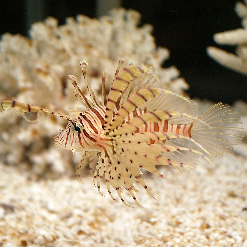 ミノカサゴ Lionfish Species Pterois lunulata Familia Scorpaenidae Location Suma Aqualife Park, Japan Copyright OpenCage